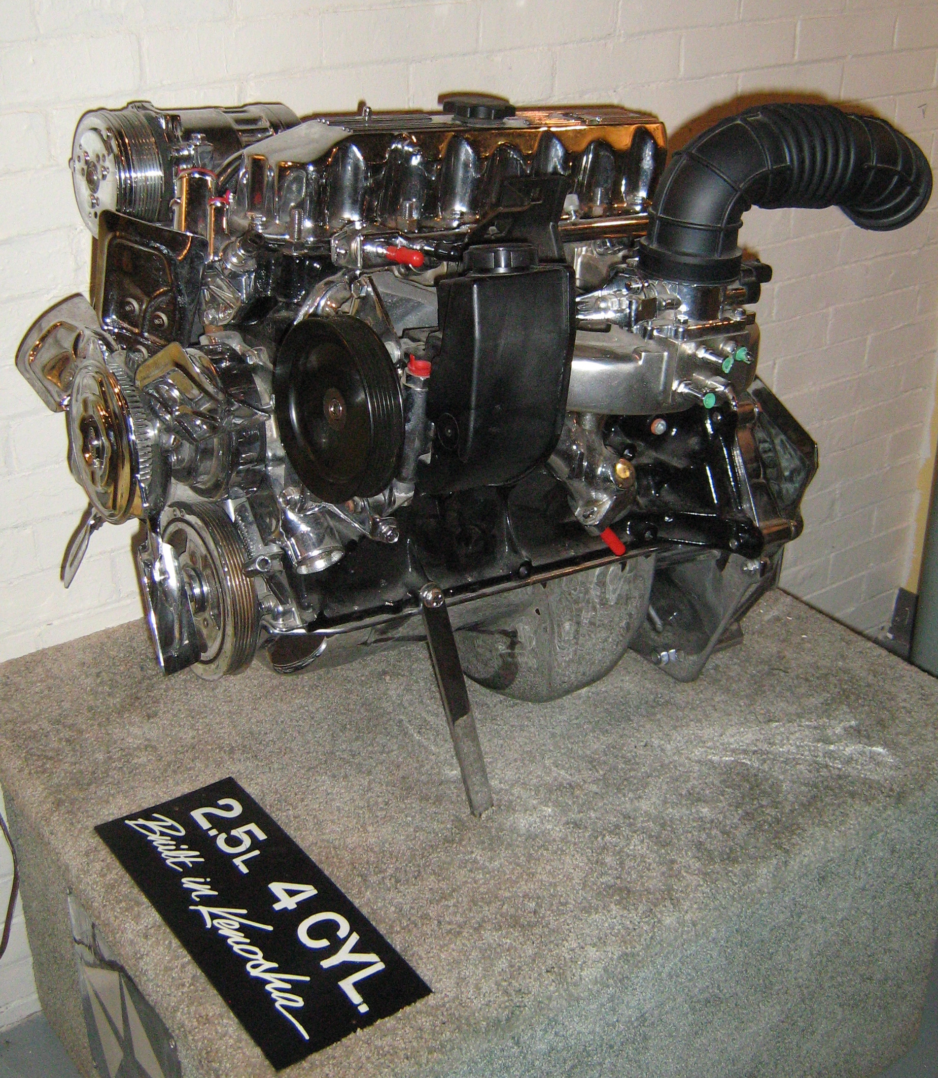 Jeep 2.5 Liter 4-cylinder engine, chromed. This engine was developed by American Motors Corporation (AMC) and continued to be manufactured by Chrysler. All were built in Kenosha, Wisconsin.